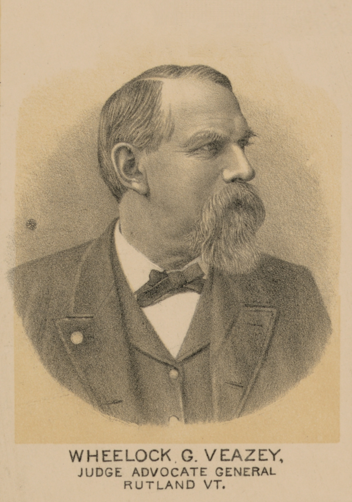 Lithograph of Wheelock G. Veazey, an American soldier, attorney, judge, and government official.